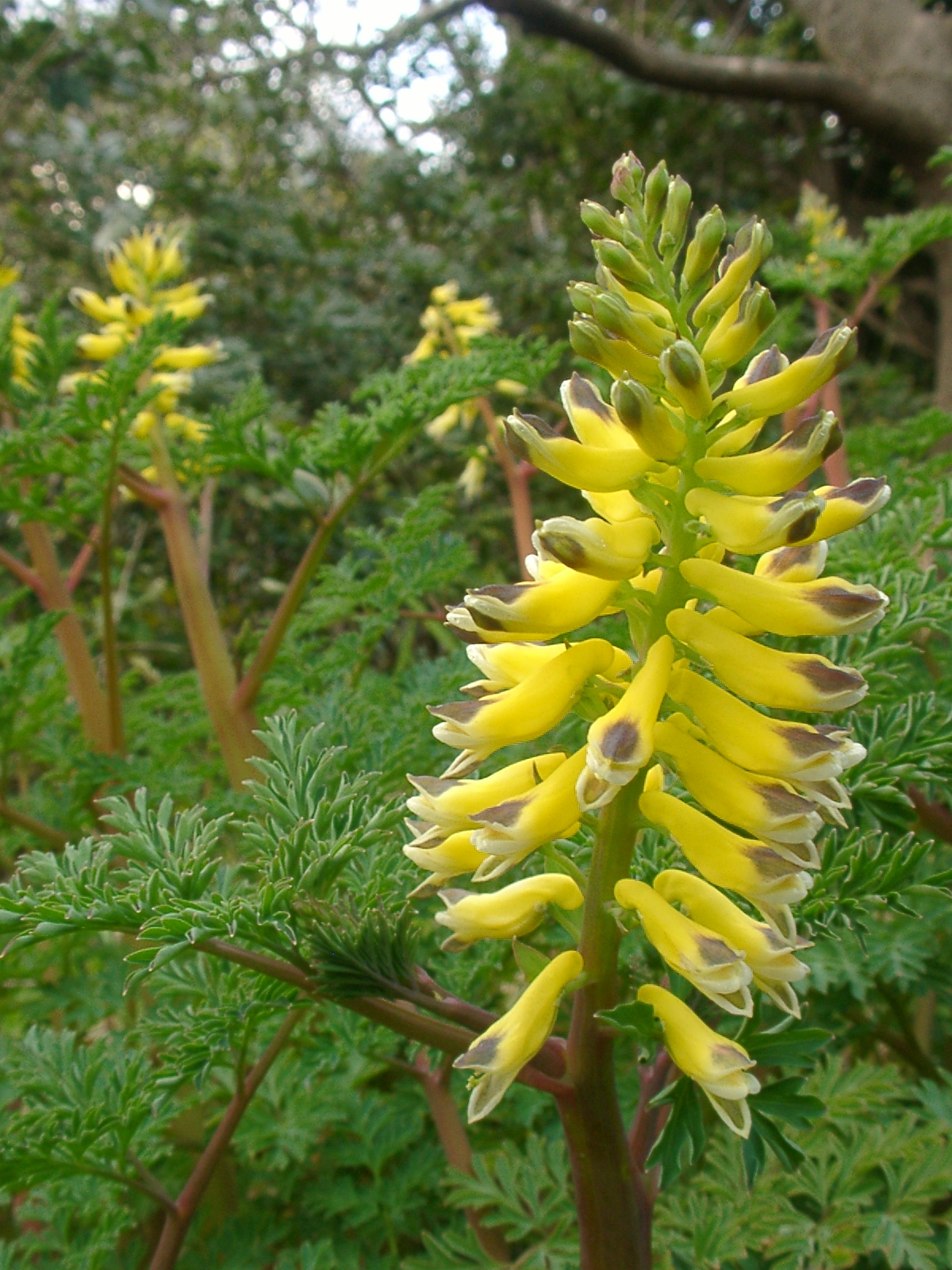 Corydalis heterocarpa var. japonica, Manazuru-machi, Japan.